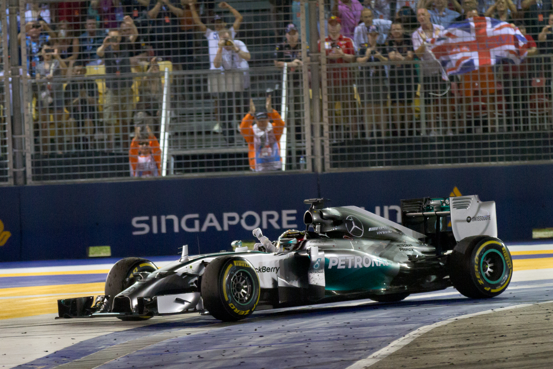 Formula One 2014 Rd.14 Singapore GP: Lewis Hamilton (Mercedes GP) won the race